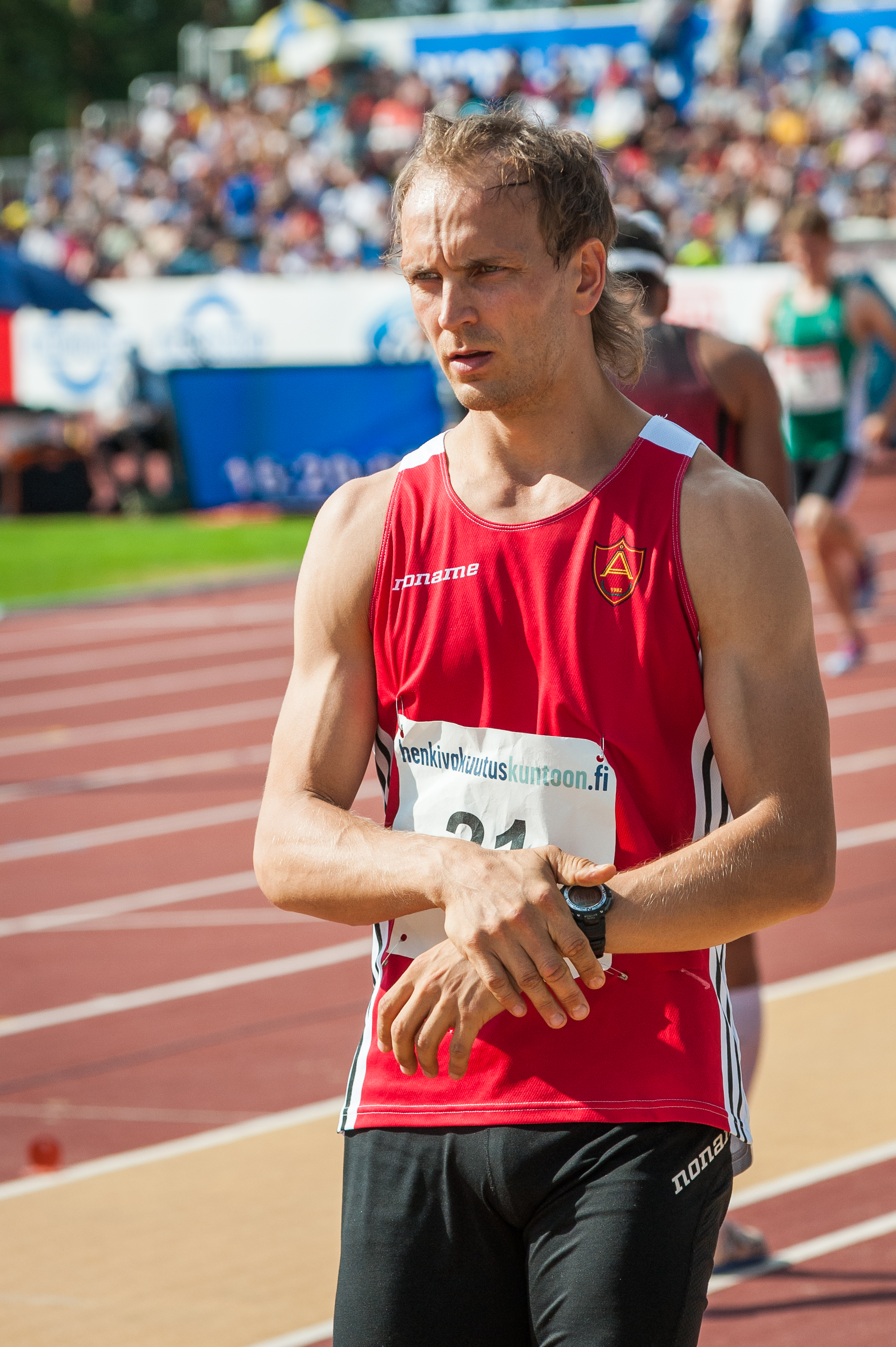 Men's triple jump competition at the 2018 Kalevan Kisat, the Finnish championships in athletics, in Jyväskylä, Finland.